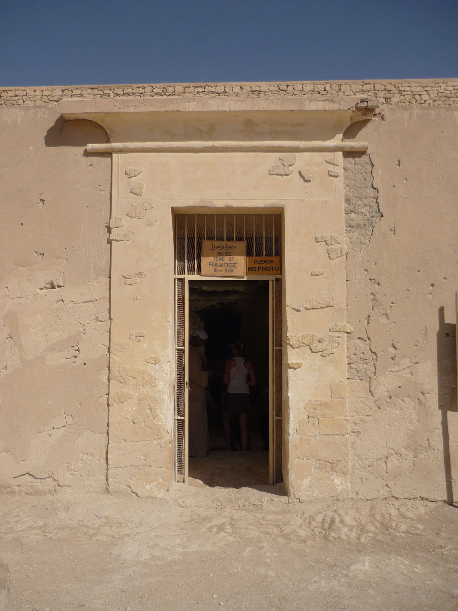 Ramose tomb, Theban Necropolis, Egypt